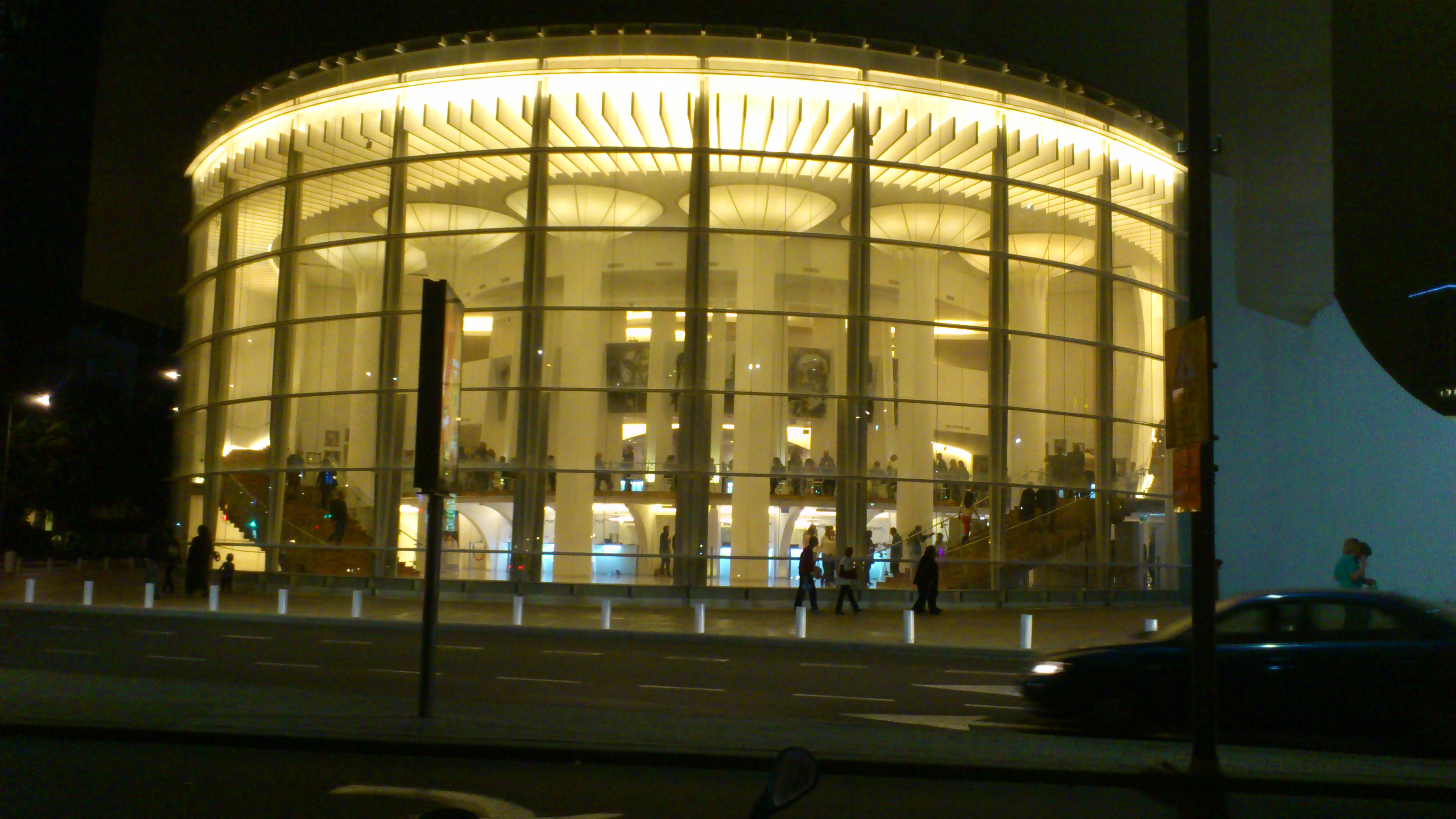 Habima National Theatre